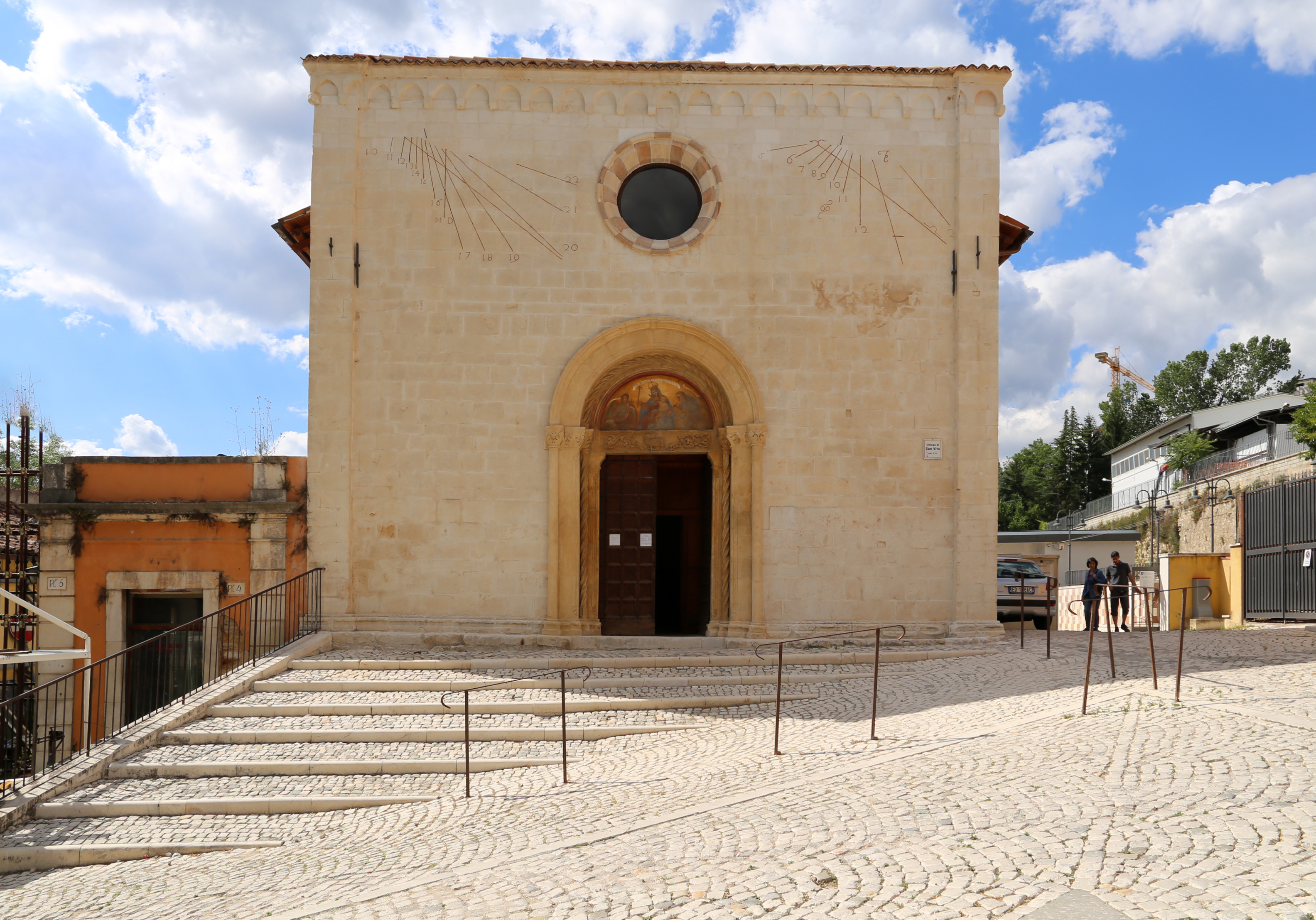 Architecture in L'Aquila